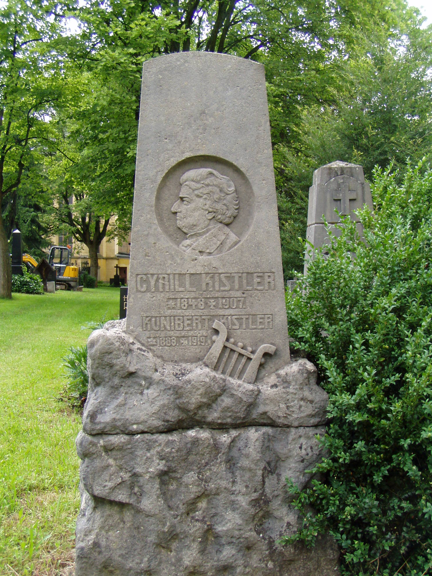 Tombstone of composer Cyrill Kistler (1848-1907), Bad Kissingen